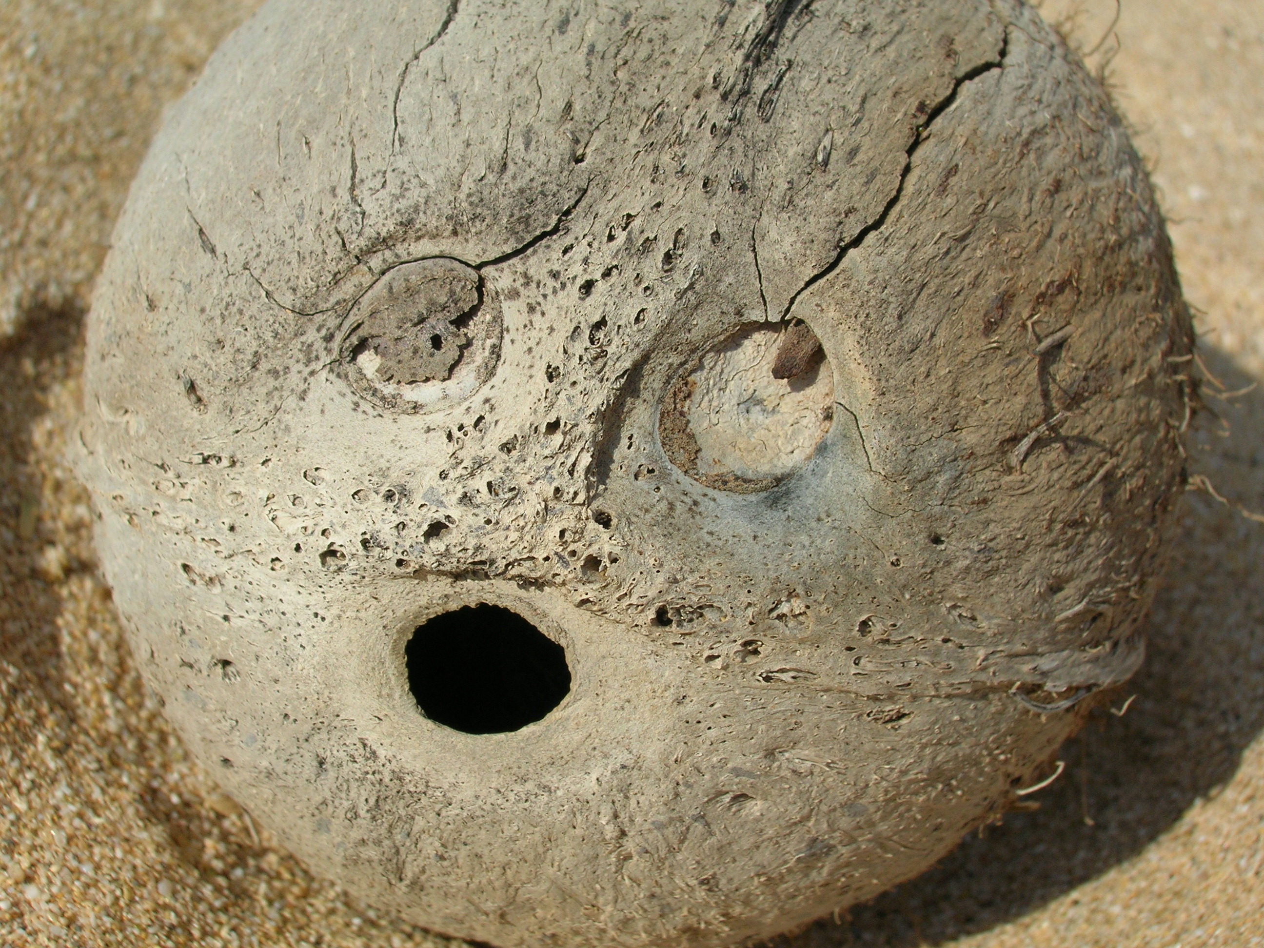 Cocos nucifera (fruit). Location: Kahoolawe, Honokanaia